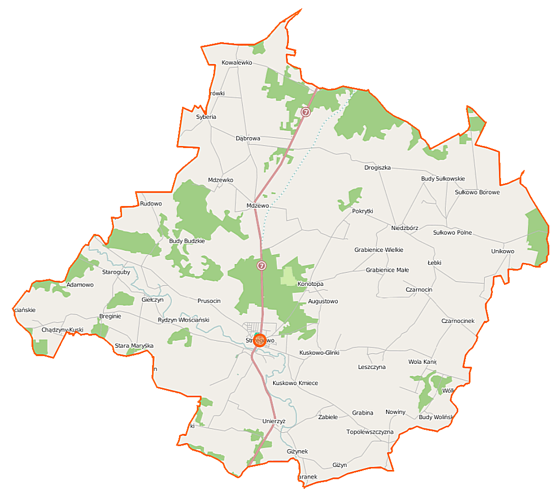 Map of Gmina Strzegowo, Poland This map of Strzegowo (gmina) was created from OpenStreetMap project data, collected by the community. This map may be incomplete, and may contain errors. Don't rely solely on it for navigation. Border coordinates53.016020.1307←↕→20.464452.8366